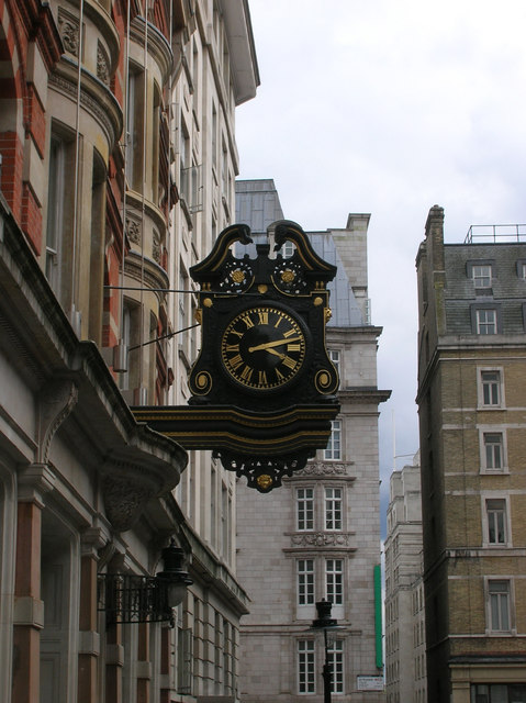 Clock in Southampton Street WC2 Looking toward Strand WC2